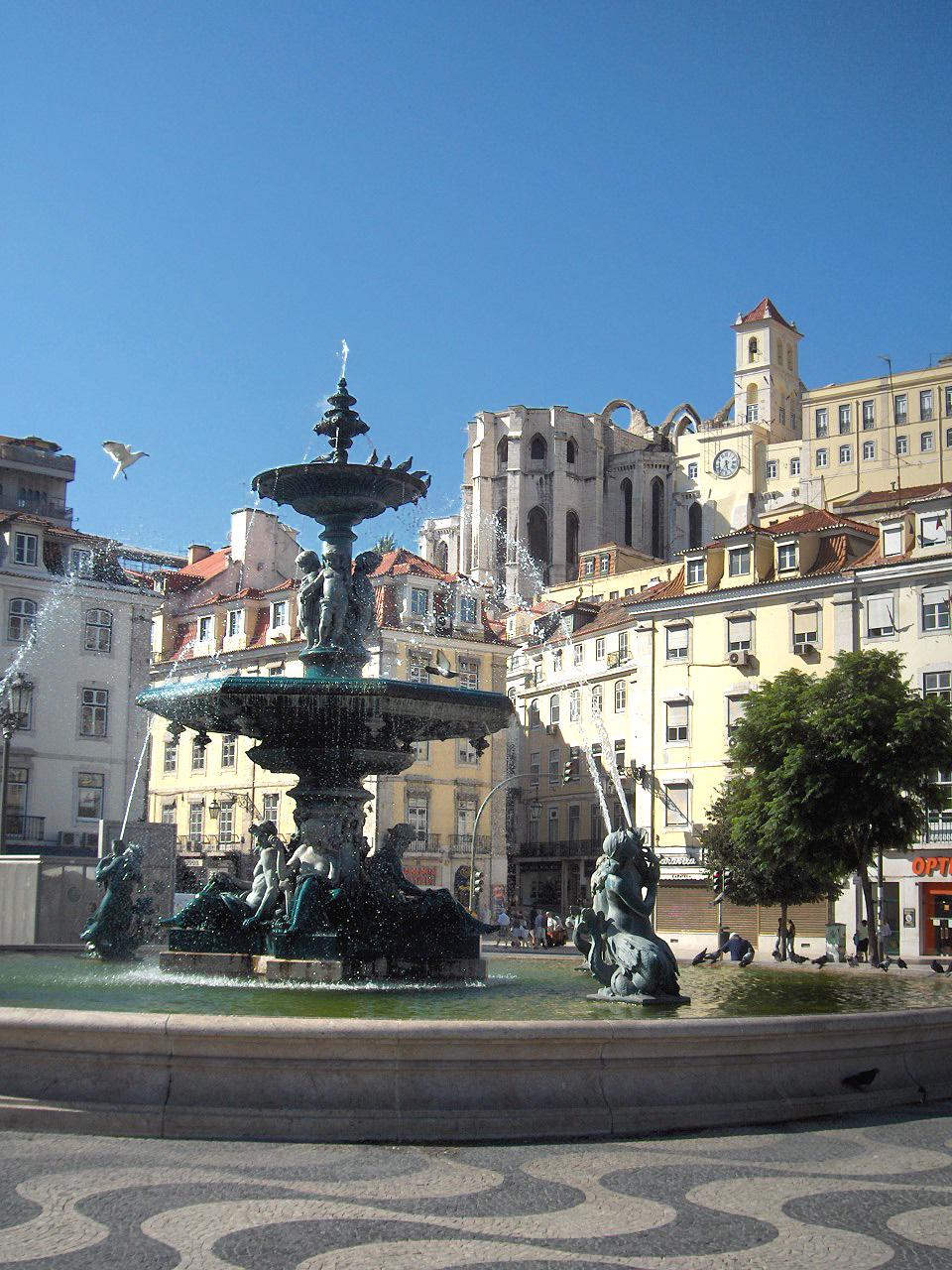 Rossio: fountain and the ruins of the Igreja do Carmo; Lisbon, Portugal